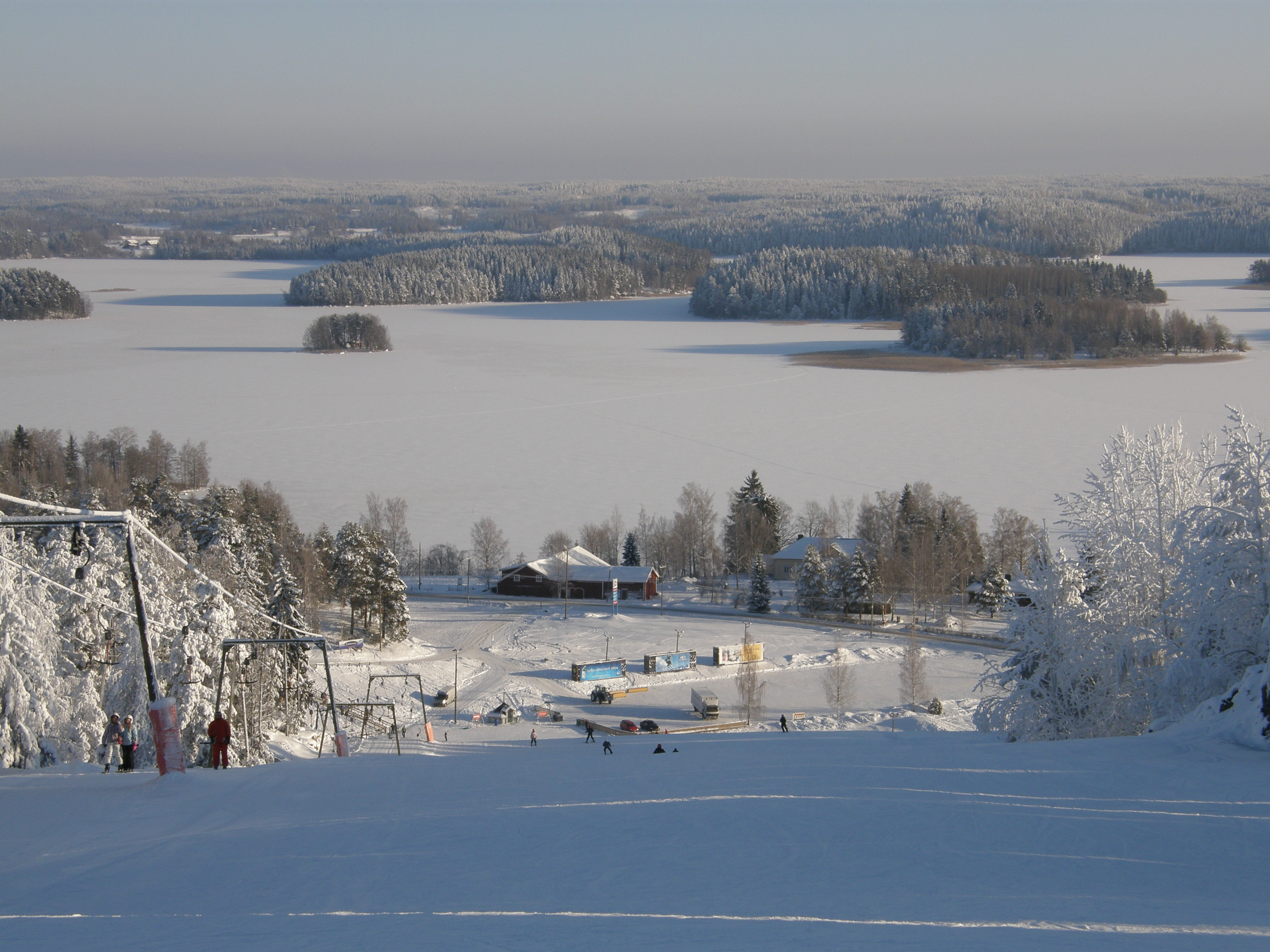 View to Lake Rautavesi from the top of Ellivuori slopes in Sastamala, Finland